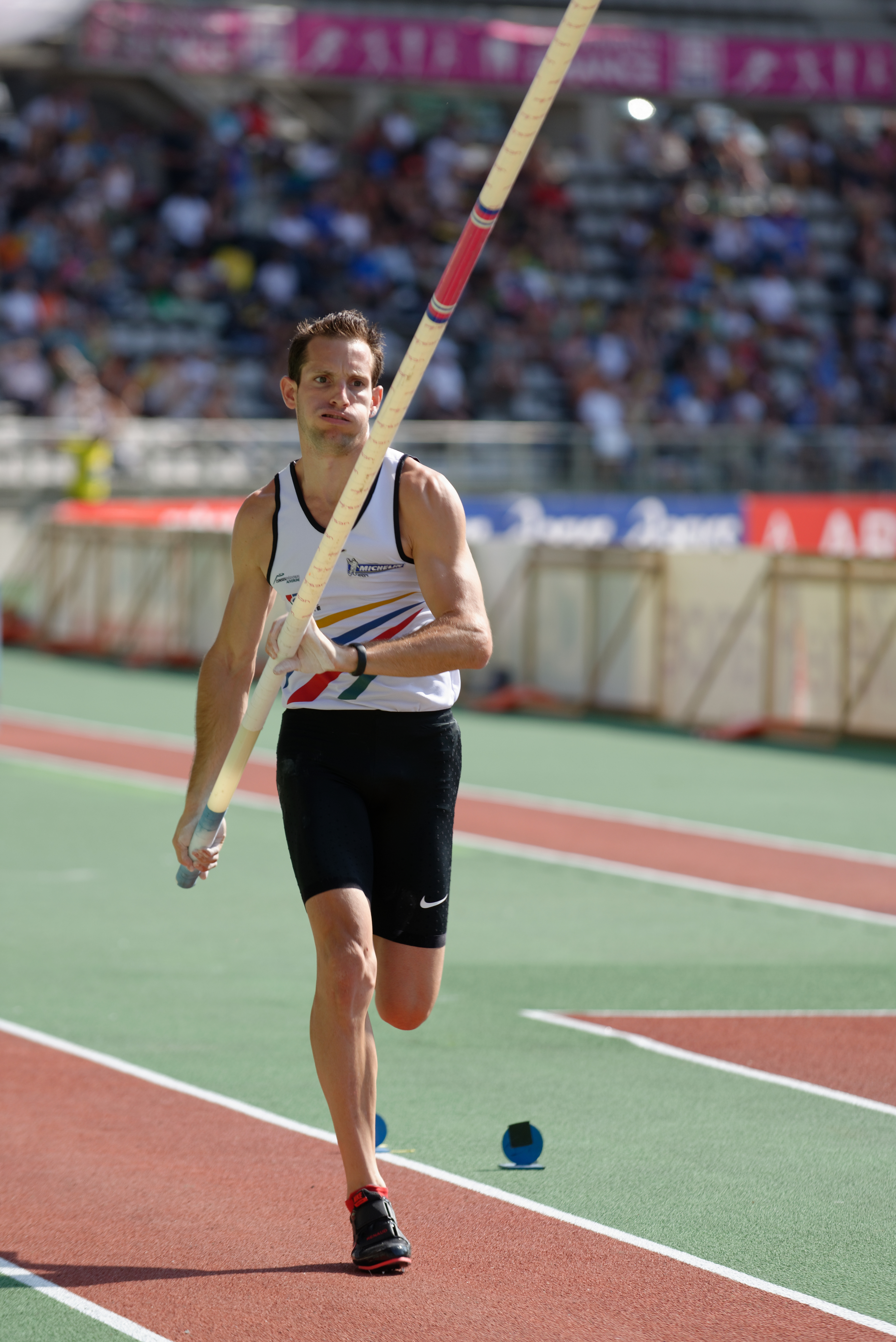 Renaud Lavillenie competes in the men's pole vault final during the French Athletics Championships 2013 at Stade Charléty in Paris, 14 July 2013.